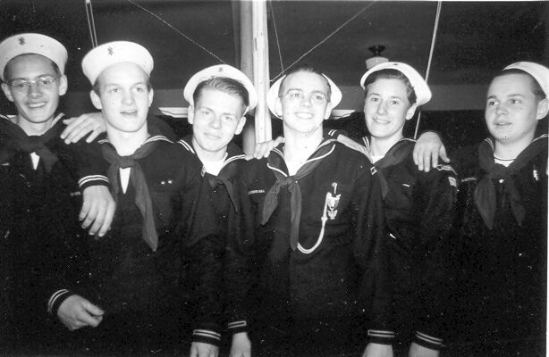 Eagle Scout Fred Light, Sea Scout crew (Troop 60) based at the Cleveland Yacht Club.